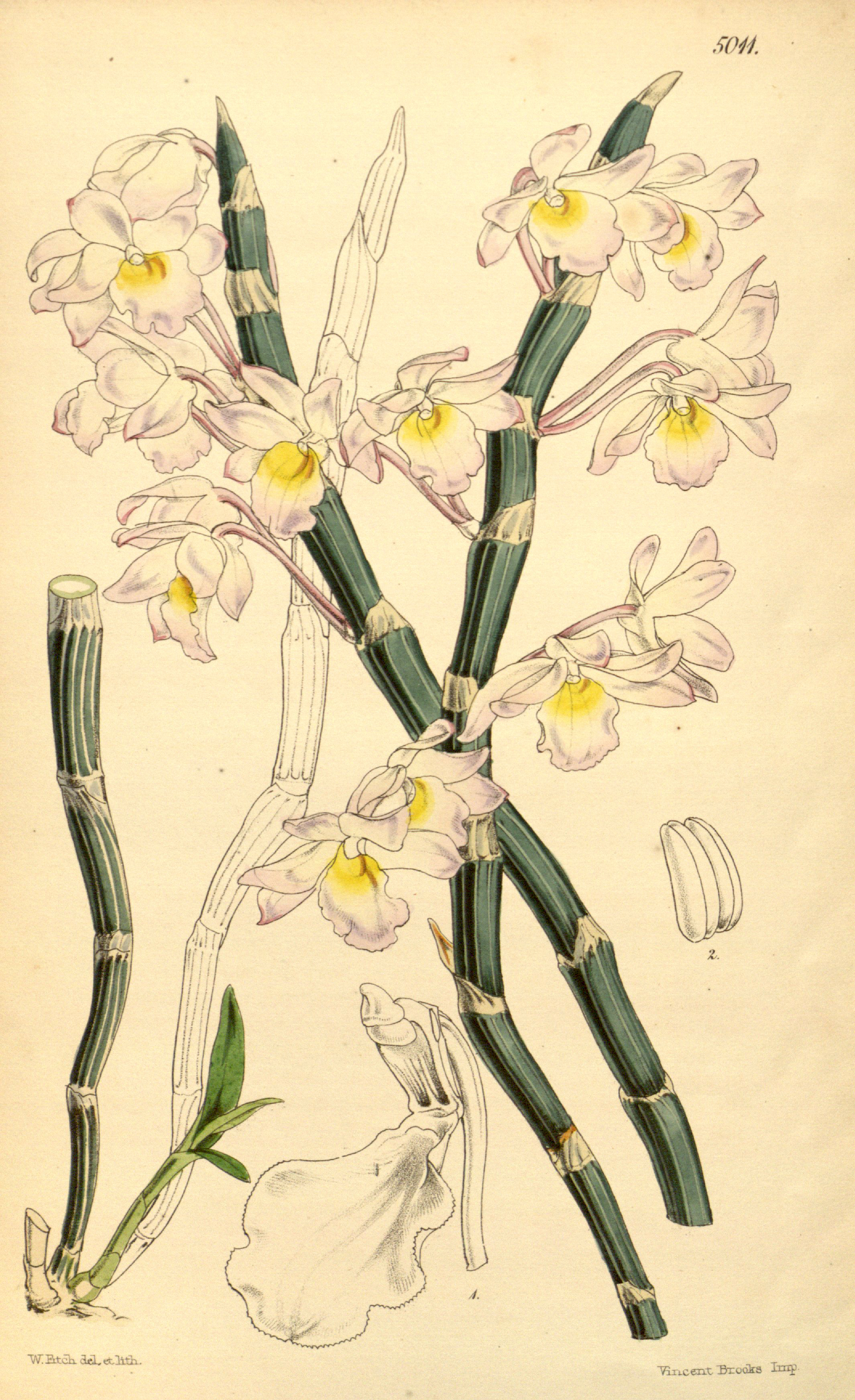 Illustration of Dendrobium crepidatum, var. labello glabro